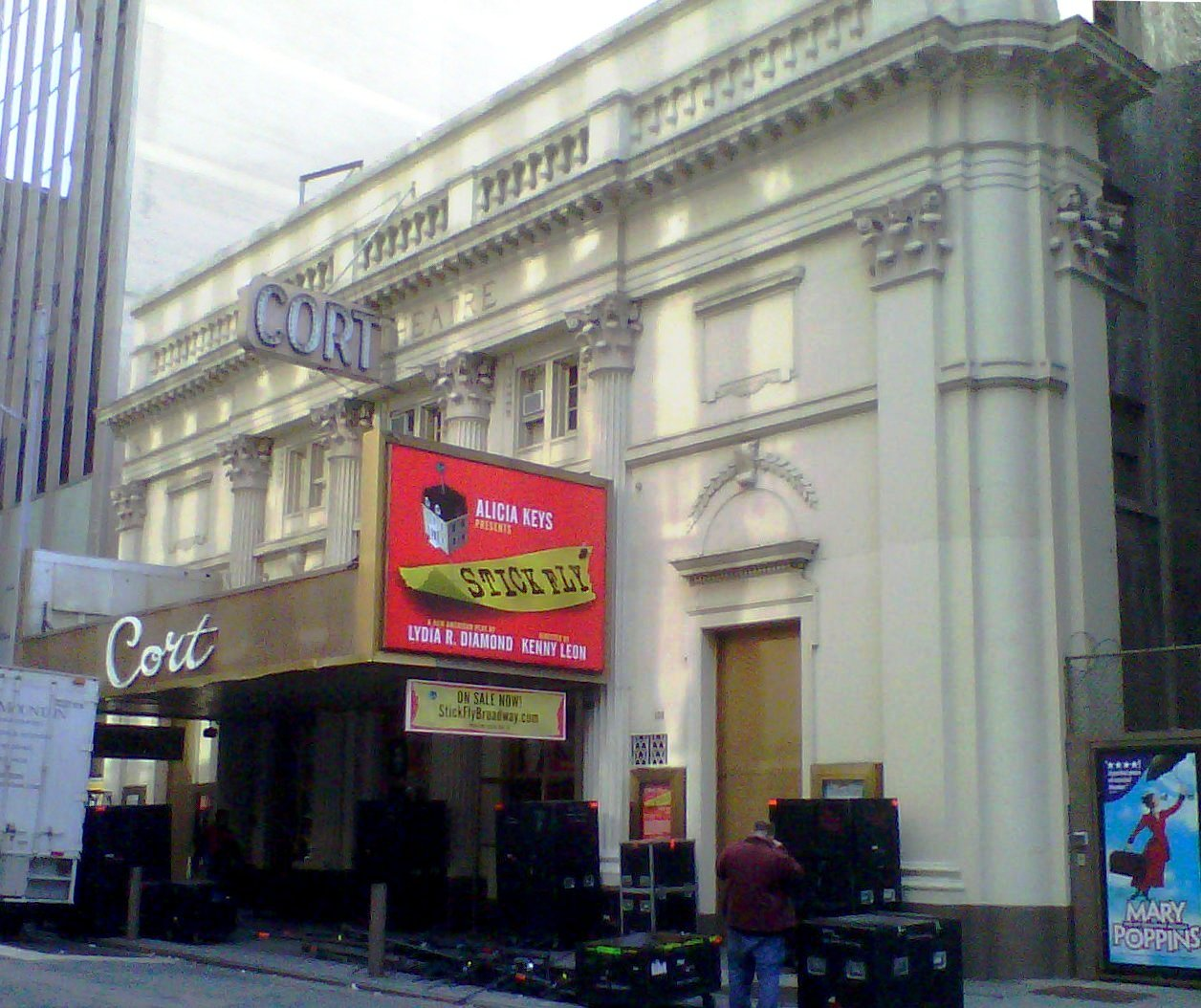 The Cort Theatre at 138 West 48th Street between Sixth and Seventh Avenues in the Theatre District of Manhattan, New York City during a "load-in" when equipment for a new production is brought into the theatre and installed.